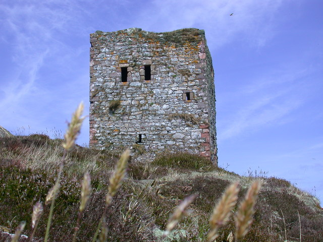 ruined castle, Ailsa Craig